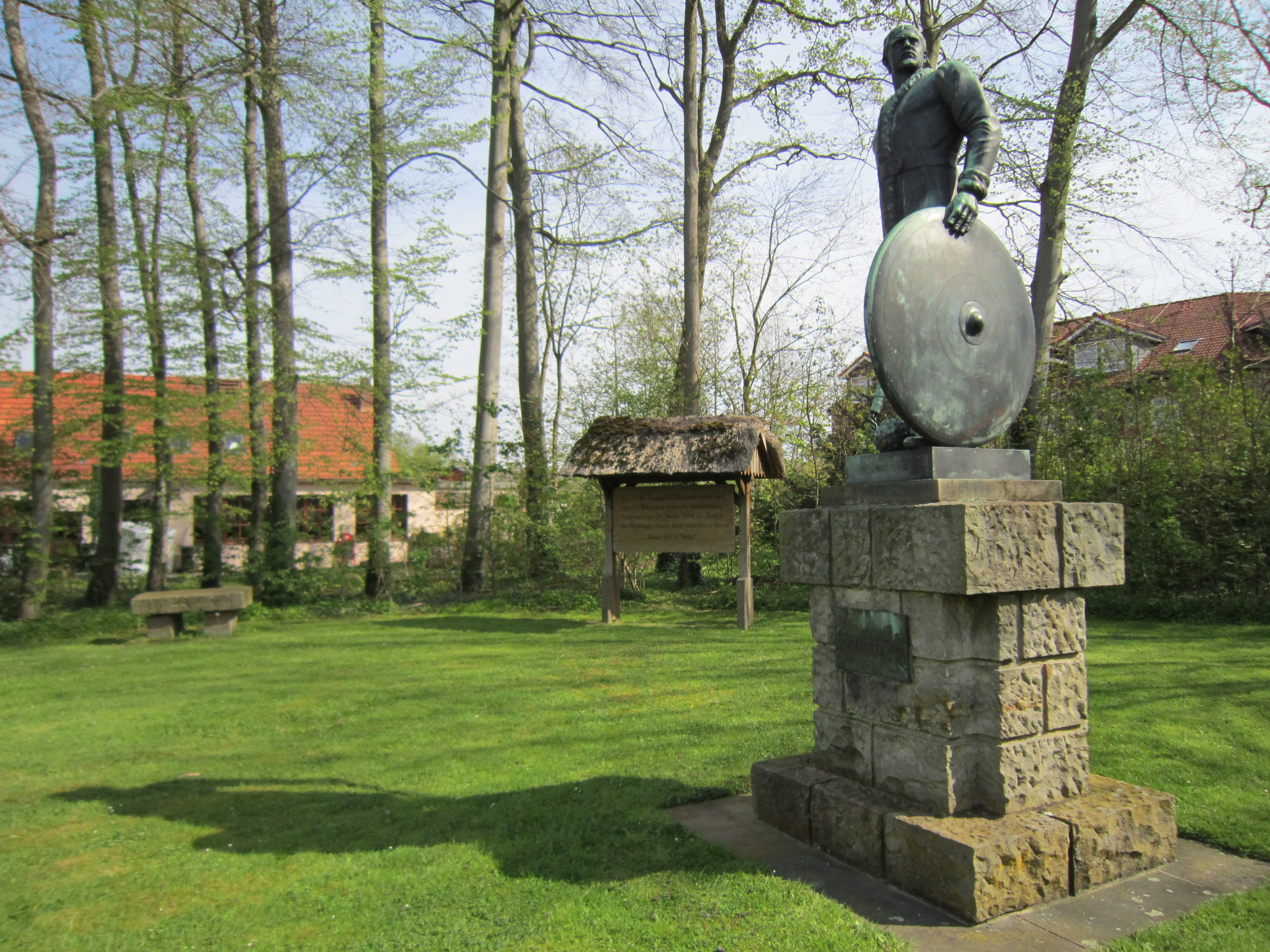 Memorial at Hartwarder Landwehr (Stadland), reminding of the battle in which the Rustringian Frisians lost their freedom in 1514